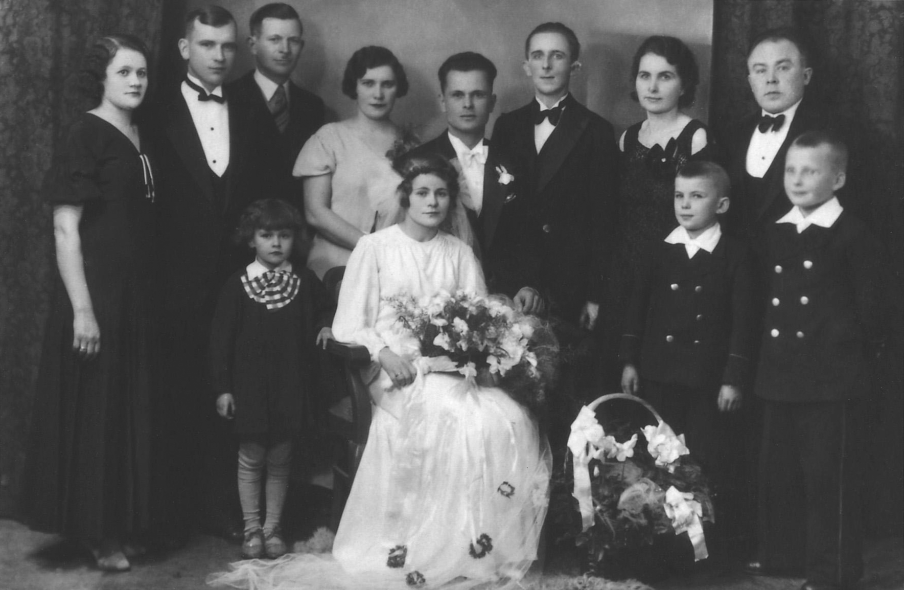 Czesław Trzciński's wedding photograph